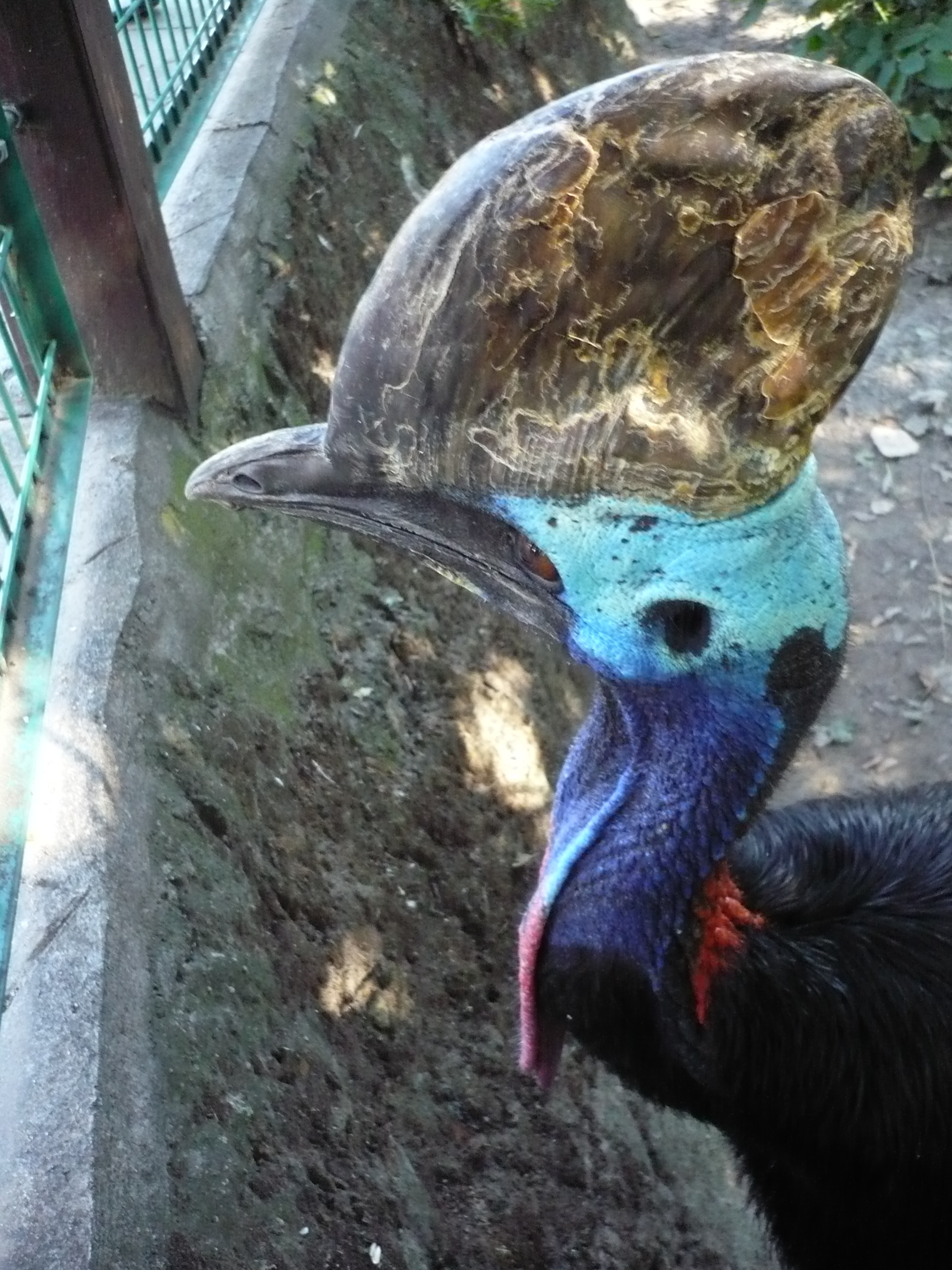 Cassowary at the Budapest Zoo.